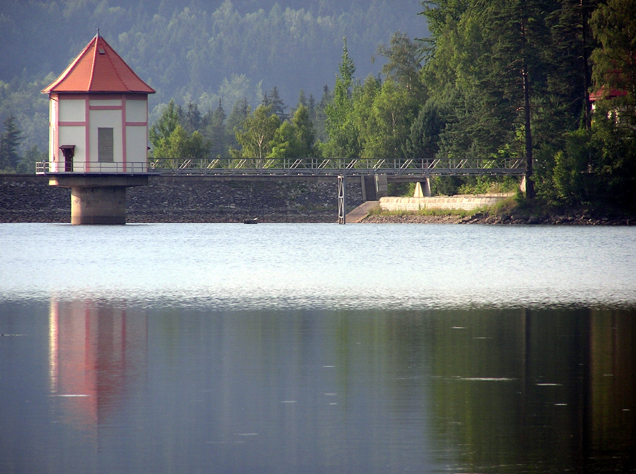 A view towards the dam across Chřibská Reservoir, Czech Republic.